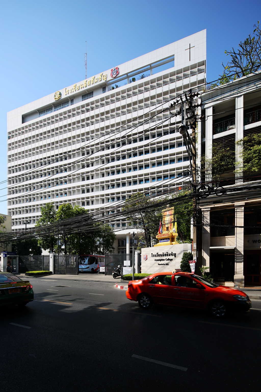 This is the image taken for the main building in Assumption College, where the movie Love of Siam happened.